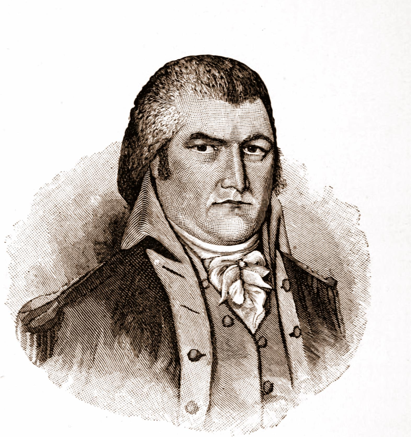 General Moses Cleaveland